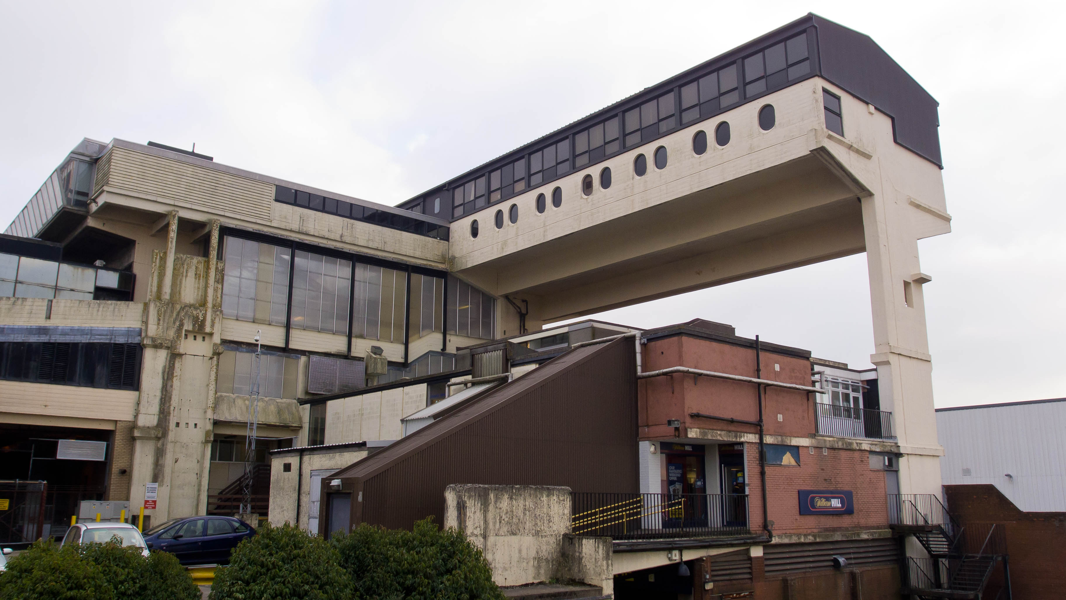 Cumbernauld Shopping Centre